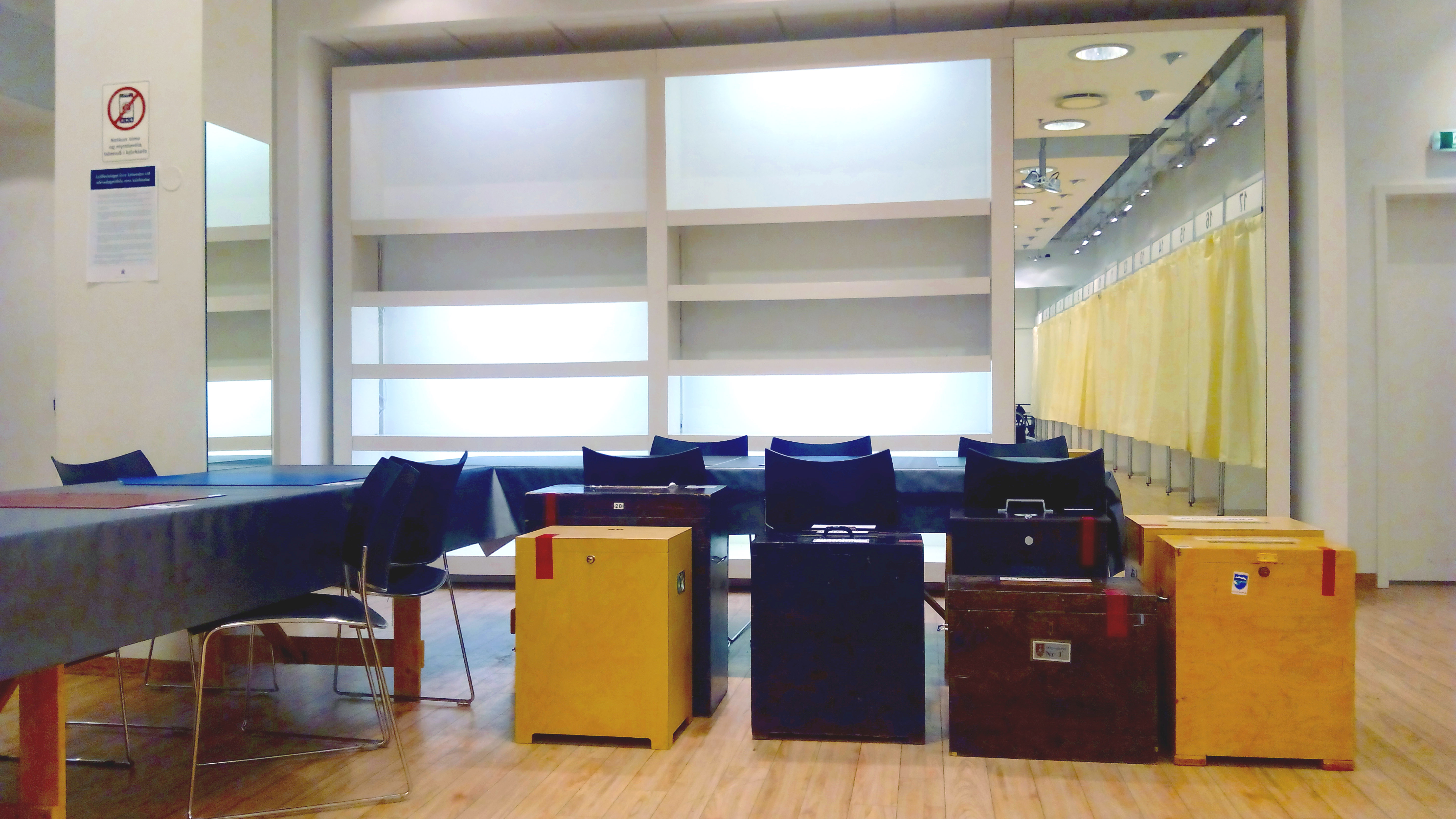 Absentee ballot, ballot boxes and voting booths and voting booths in Smáralind shopping mall in Kópavogur, Iceland for the 2017 parliamentary elections.